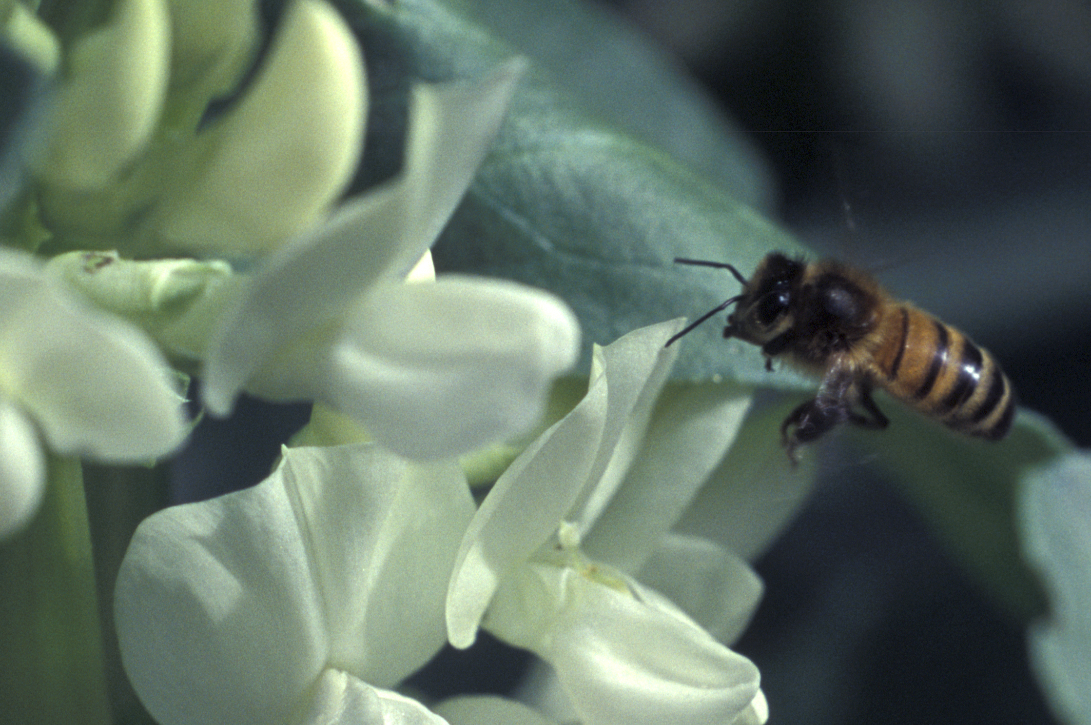 INRA, Jean Weber